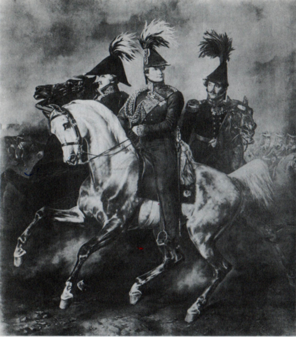 General Ernst von Pfuel, Kronprinz Friedrich Wilhelm, Oberst Kellermeister von der Lund.